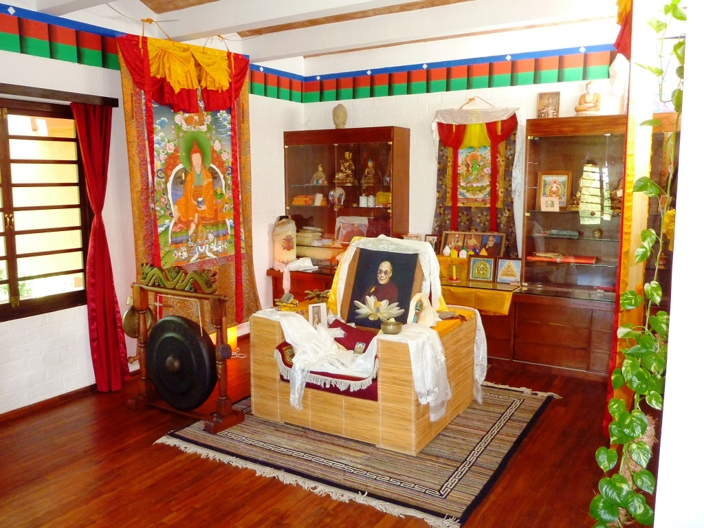 I took this photo on a trip to southern India in 2010